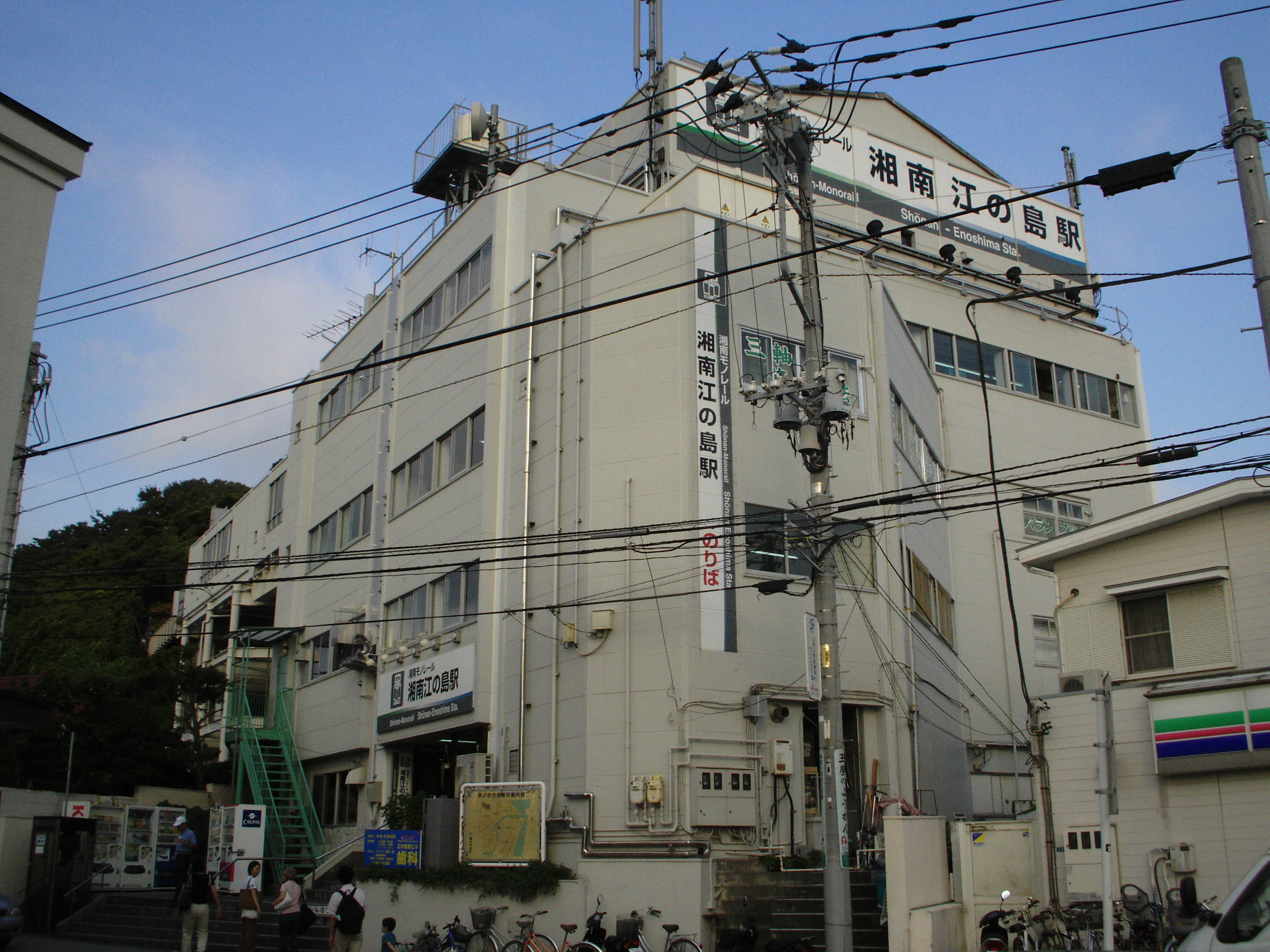 Exterior of Shōnan-Enoshima Station